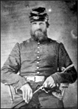 Adoniram J. Warner was a soldier from Pennsylvania and politician from Ohio.